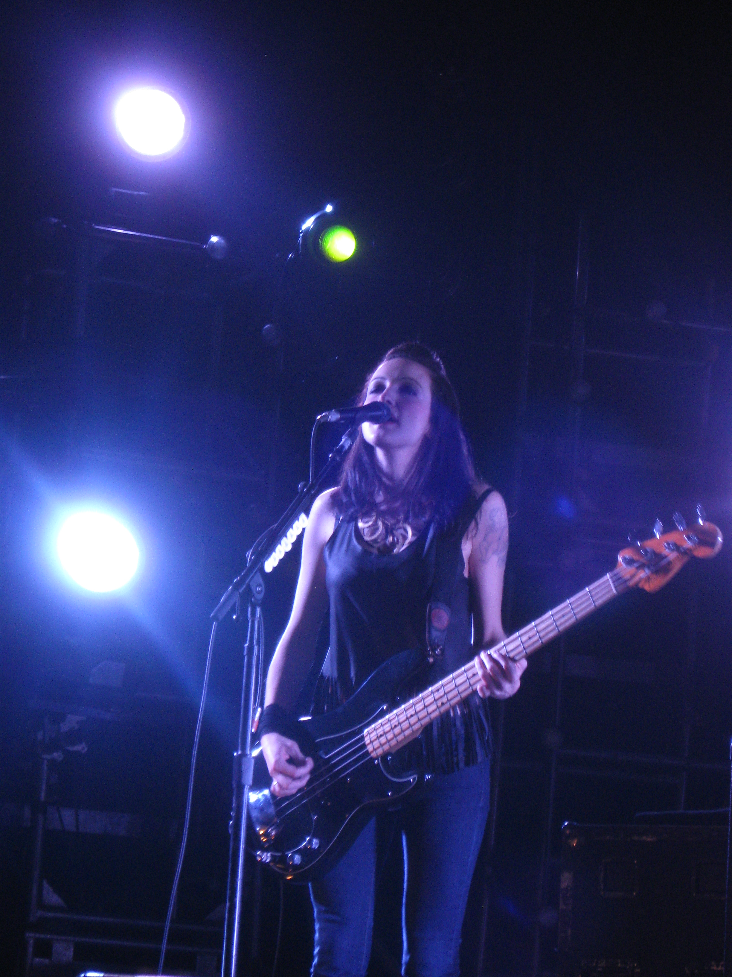 Nicole Fiorentino on a live performance at Bogotá, Colombia, on November 27, 2010